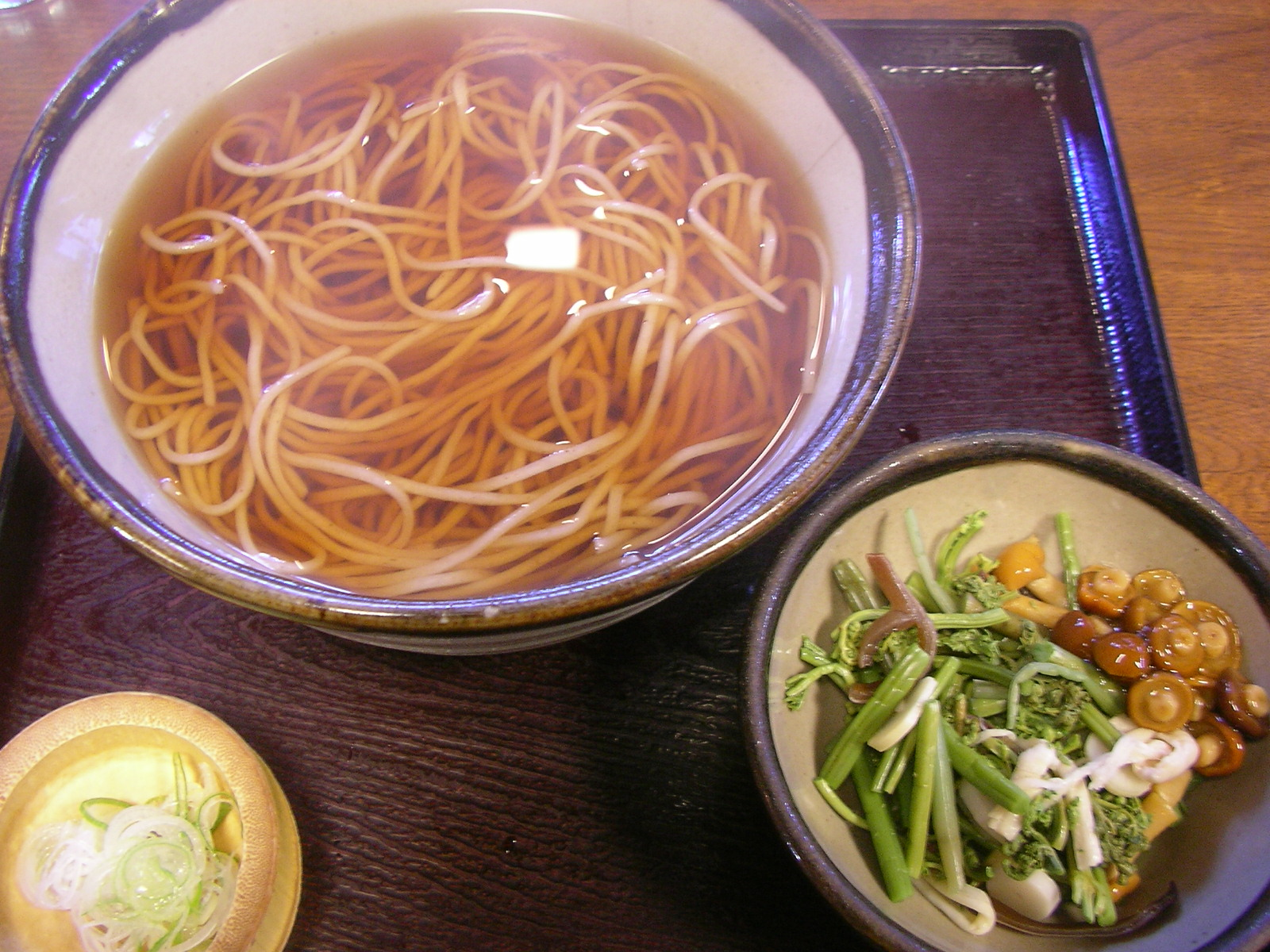 Kake soba, sliced welsh onion and sansai